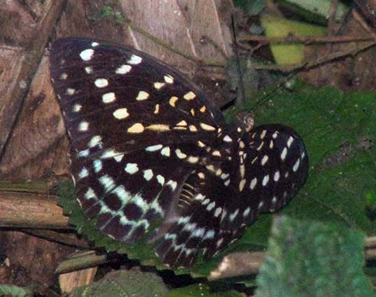 Archduke Lexias dirtea female, Family Nymphalidae. Image shot by Rahul Natu on 15 Nov 05 at Namdapha, Arunachal Pradesh, India . Donated by him for placement on Wikimedia Commons for specific use in Indian butterflies wikibase. Uploaded by Nature Loader on behalf of Rahul Natu with his specific permission. Nature Loader 09:32, 13 May 2006 (UTC)